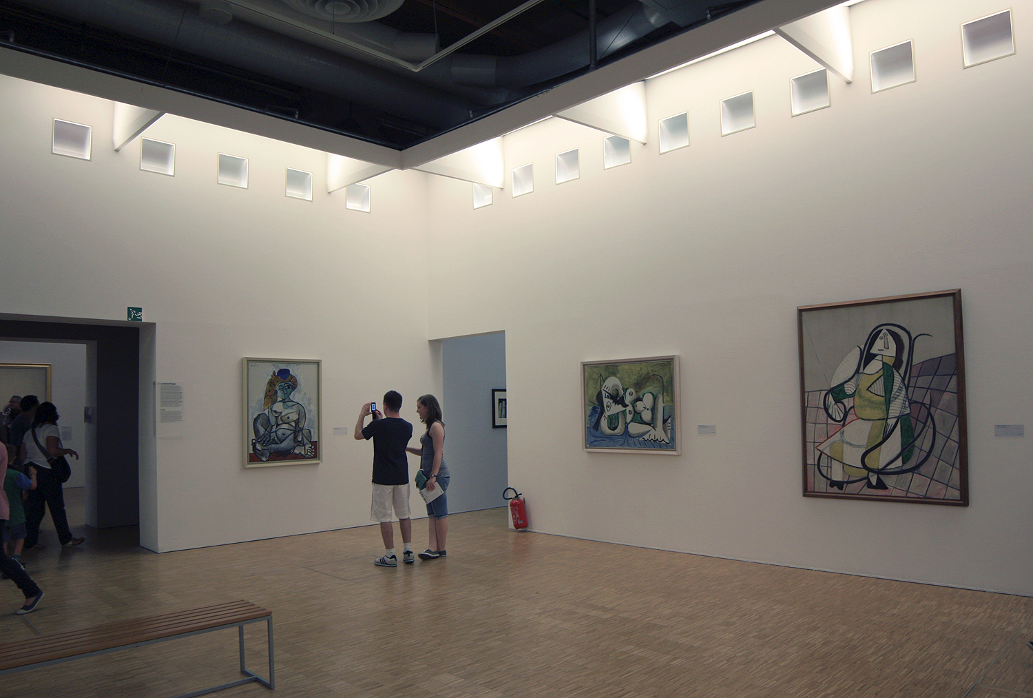 Picasso's works in Pompidou centre, Paris